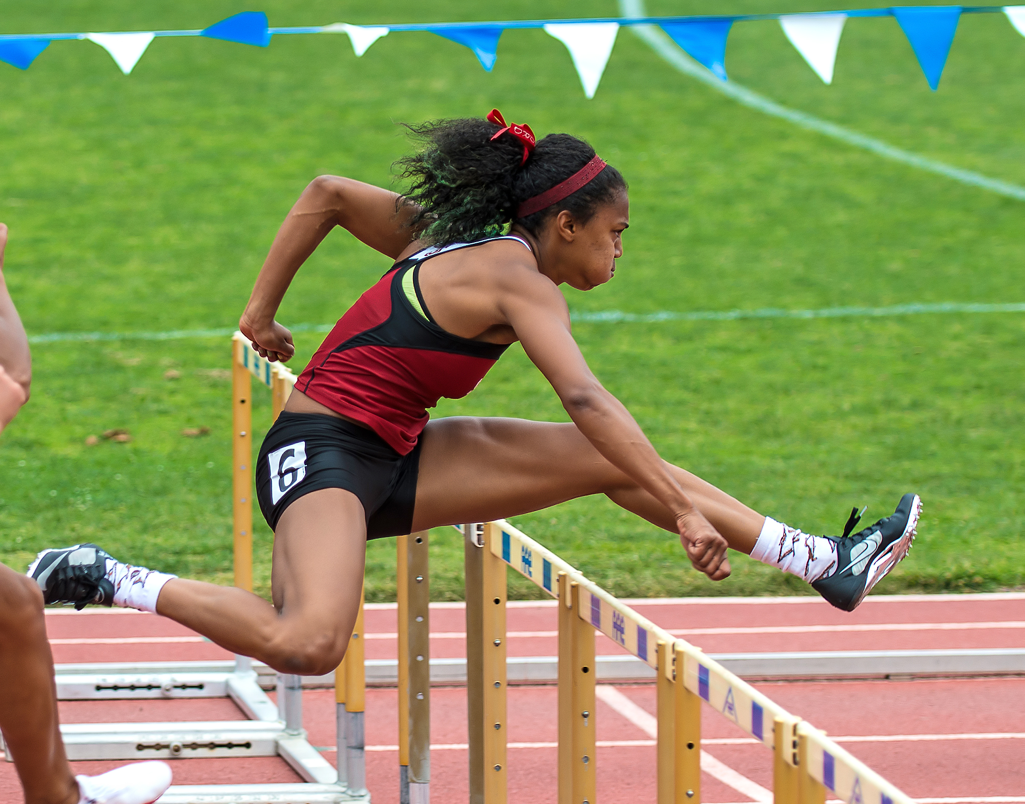 Wins the 100m hurdles in 13.50 Kori Carter